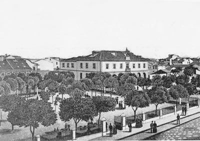 Praça do Almada bourgeois garden - 19th century. Drawing created in the 19th century.